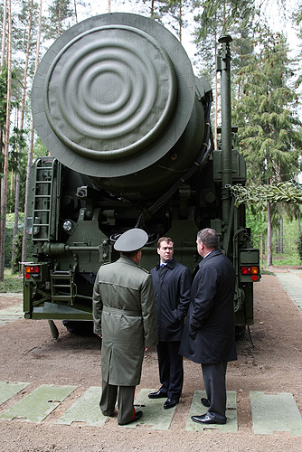 TEIKOVO, IVANOVO REGION. At the 54th Division of the Strategic Missile Forces. Topol ICBM.